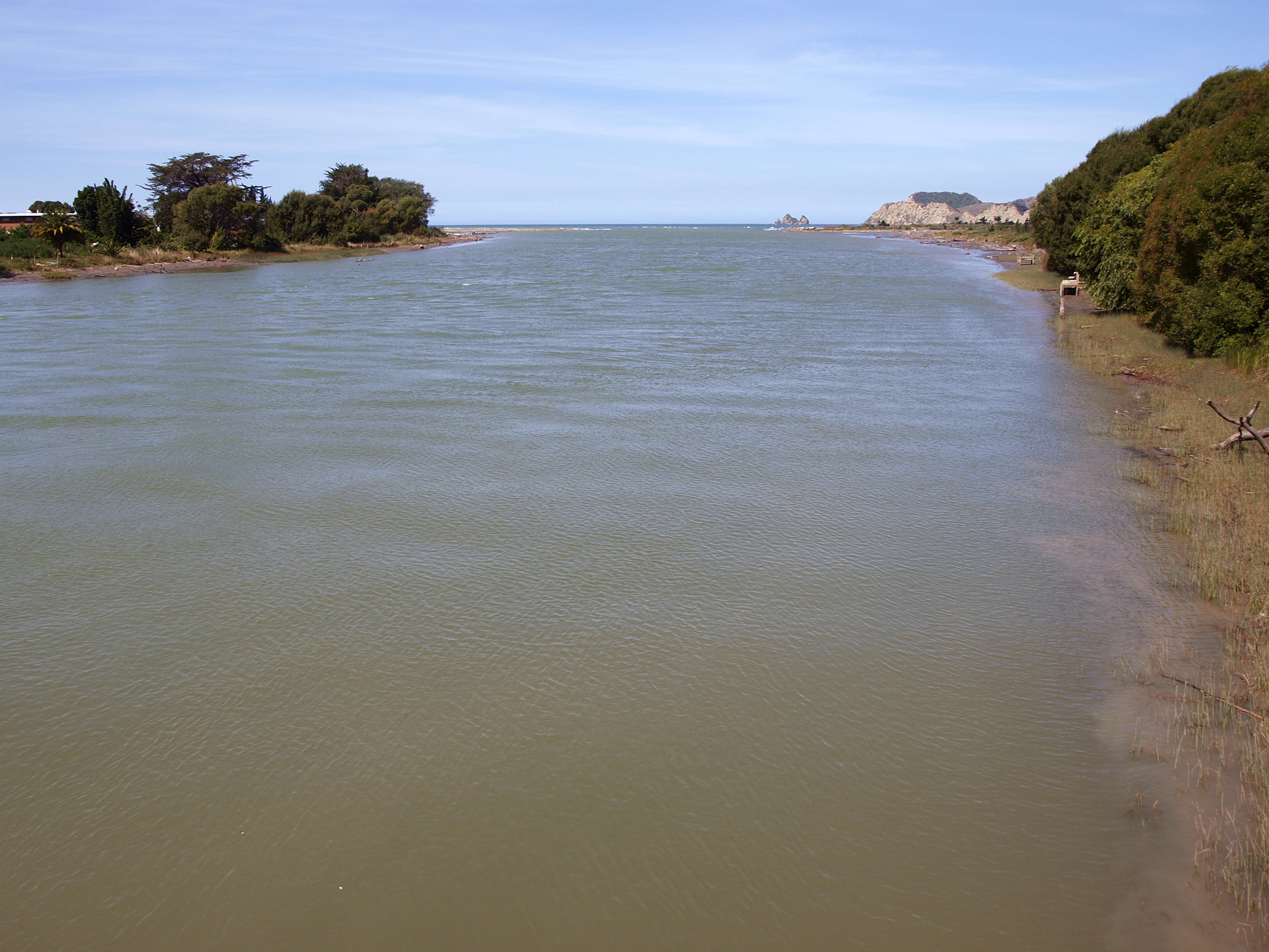 Uawa River (mouth), Gisborne Region, New Zealand